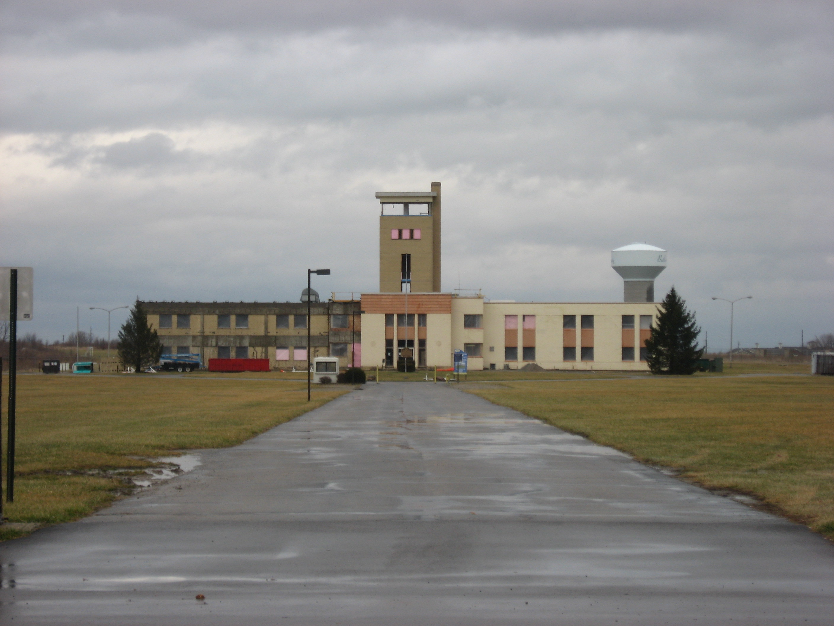 Front of the Voice of America Bethany Relay Station, located at 8070 Tylersville Road in West Chester Township, Butler County, Ohio, United States. Built in 1944, it is listed on the National Register of Historic Places.